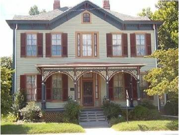 The front of the Costen House. It was built by Dr. Isaac Costen in the 1870s.